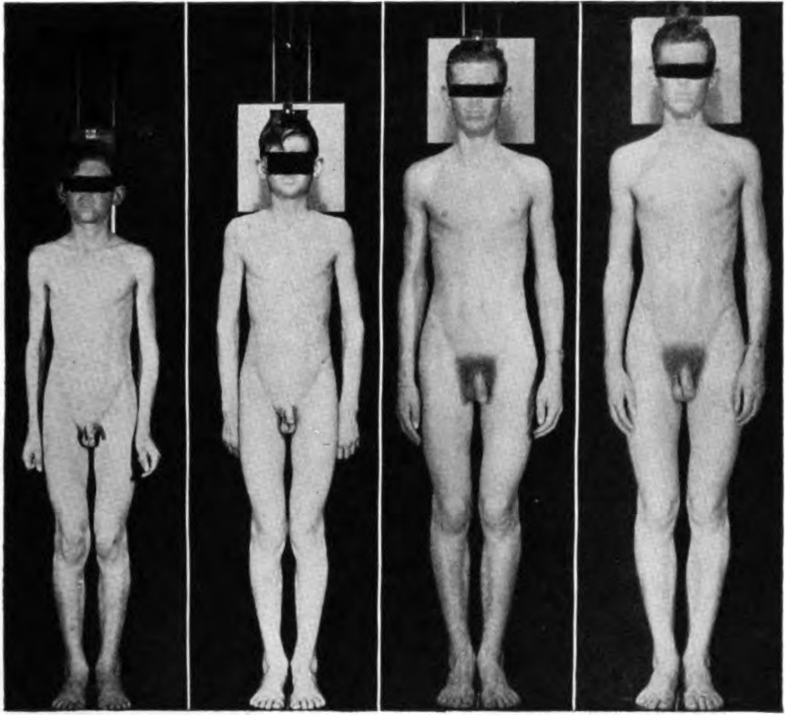 Boy going through puberty : 11.3yo (prepuberal) 12.5yo, 14.9yo and 16.3yo (post puberal).